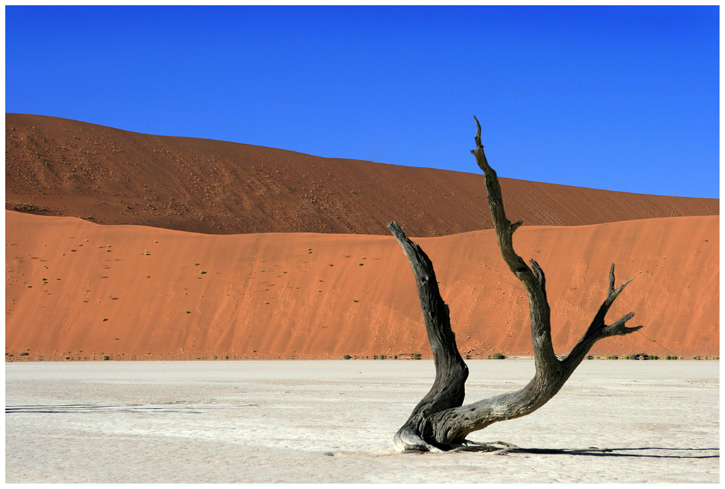 The Dead Vlei pan in the desert of Namibia. / Once in the life every photo-enthusist want to be in the Dead Vlei with camera. In the year 2007 this dream came true.